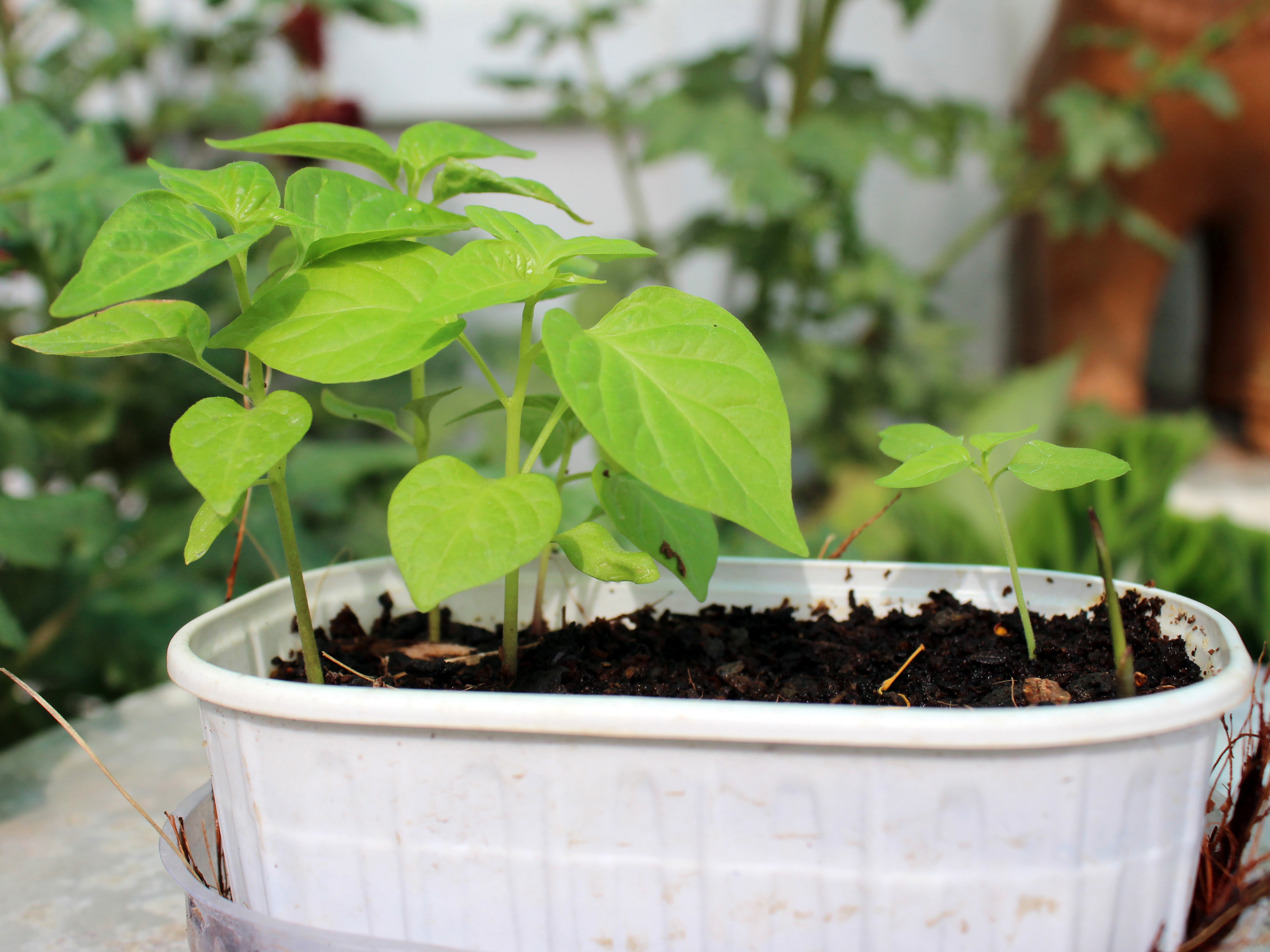 30 days old plant Bhut jolokia